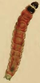 Stainton’s Natural History of the Tineina (1855–1873): Recurvaria leucatella